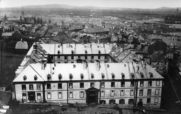 Photograph, Old Jesuit monastery from tower of basilica, Quebec City, QC, about 1870, Livernois, Silver salts on paper - Gelatin silver process - 12 x 19 cm.The building was built in various parts between 1647 and 1731 in Québec. It was originally a school, the Jesuit College, at the time of the French administration. After the British invasion, the British expelled the Jesuits, closed the school and the building was used as barracks for British soldiers. Later, it was used for storage of archives. It was demolished from 1877 to 1879 and, on the site, the present City Hall of Québec was built in 1895 and 1896. It must not be confused with the modern Jesuit college built in 1935 and named collège Saint-Charles-Garnier.